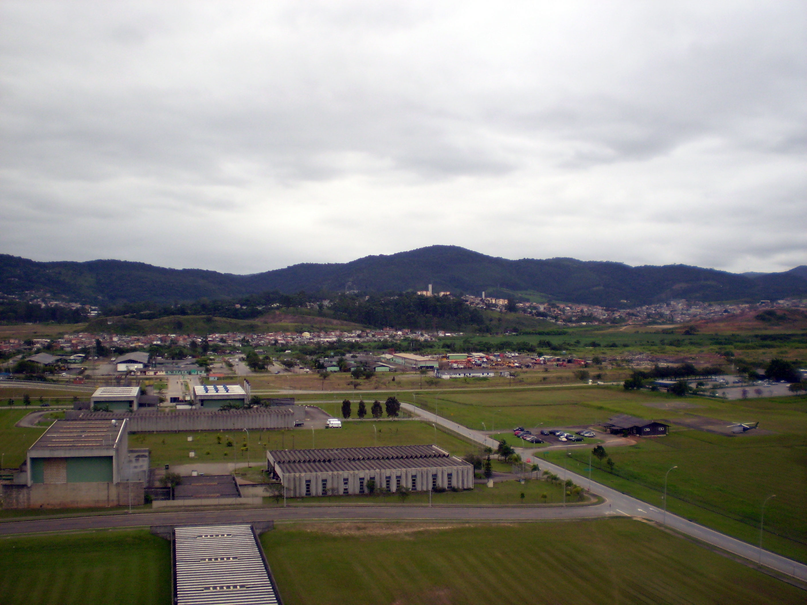 Serra da Cantareira viewed from the São Paulo/Guarulhos International Airport's control tower